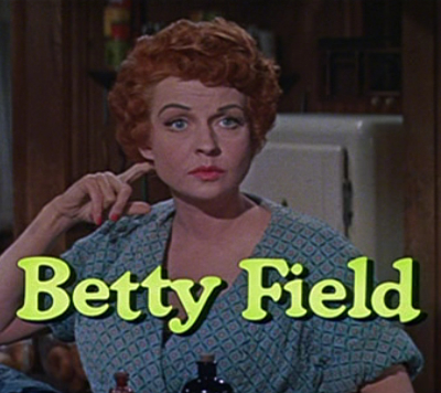 Screenshot of Betty Field from the trailer for the film Bus Stop